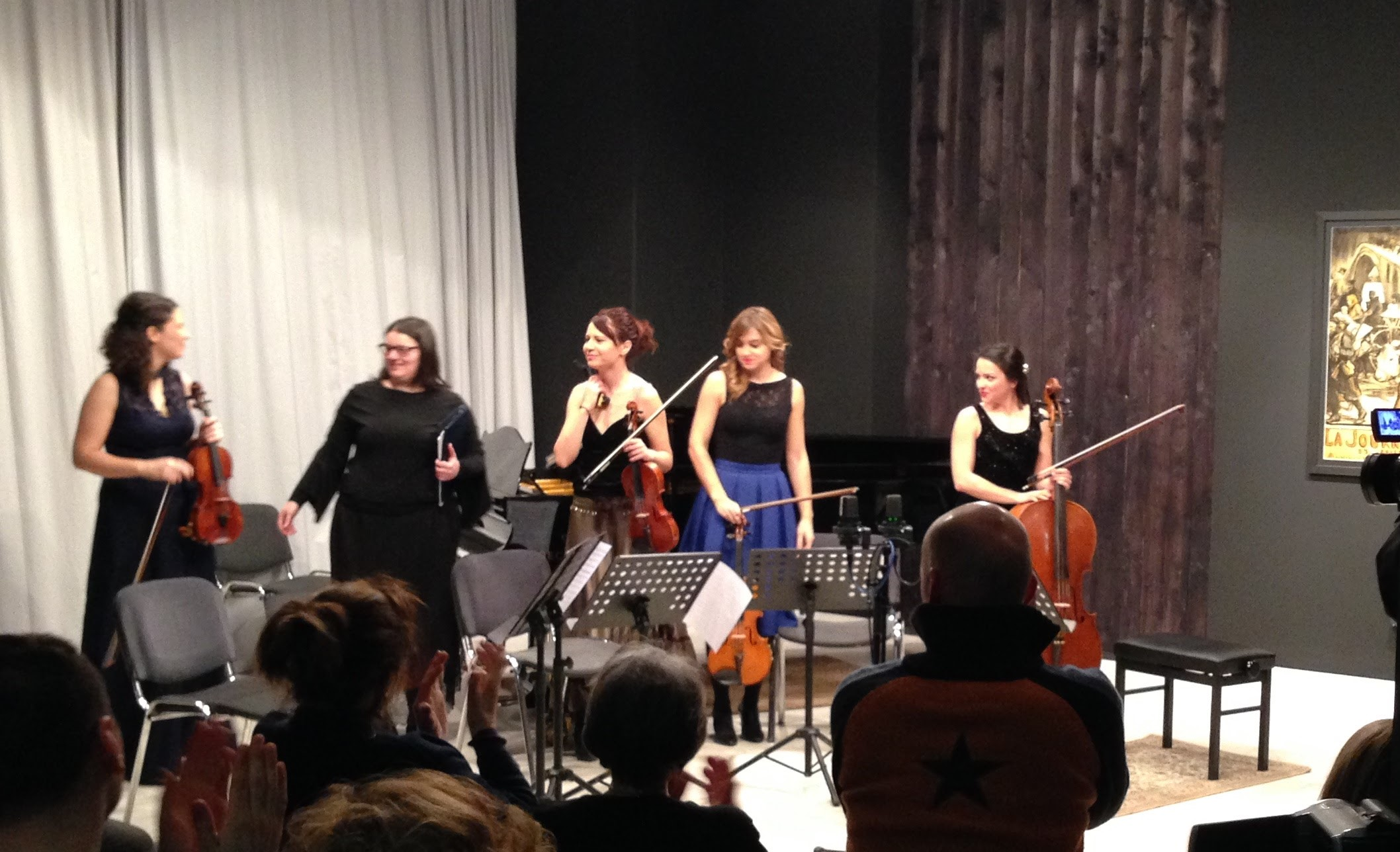 1. Tea Andrijic (Belgrade, 1987), the Serbian pianist of the younger generation which is on the music scene in Serbia entered the first years of the 21st century. 2. String Quartet "Anime", one of the younger Serbian chamber classical music group, founded in February 2014 in Belgrade. The quartet consists of: Dušica Mladenović, violin, Mina Mladenović, violin, Marina Popović, viola and Teodora Nikolic, cello. Srpski (latinica): 1. Tea Andrijić (Beograd, 1987), srpska pijanistkinja mlađe generacije koja je na muzičku scenu Srbije stupila prvih godina 21.veka. 2. Gudački kvartet „Anime”, jedna je od mlađih srpskih kamernih grupa klasične muzike, osnovana februara 2014. godine u Beogradu. Kvartet čine: Dušica Mladenović, violina, Mina Mladenović, violina, Marina Popović, viola i Teodora Nikolić, violončelo.